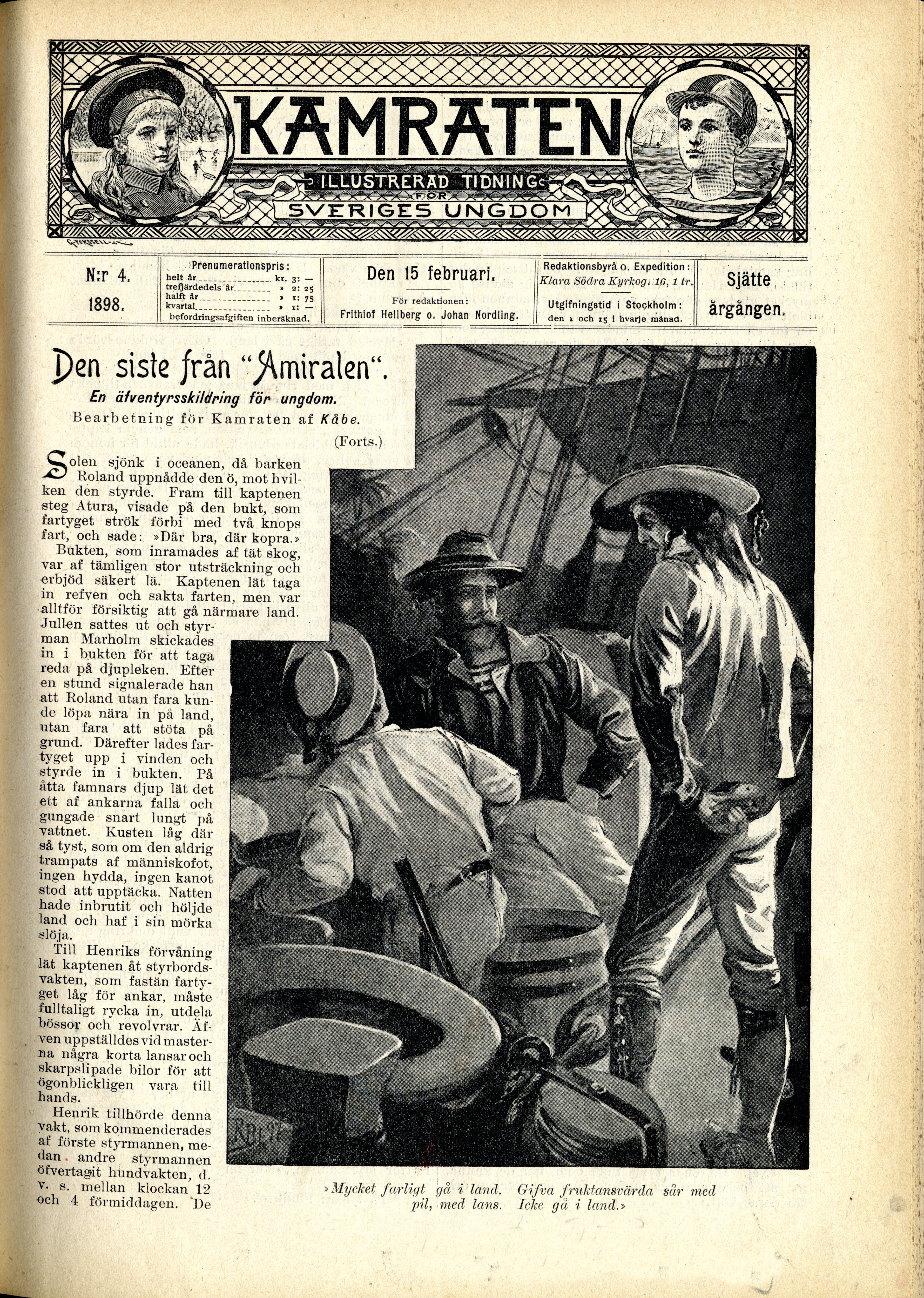 Front cover of the Swedish magazine Kamraten, number 4 1898